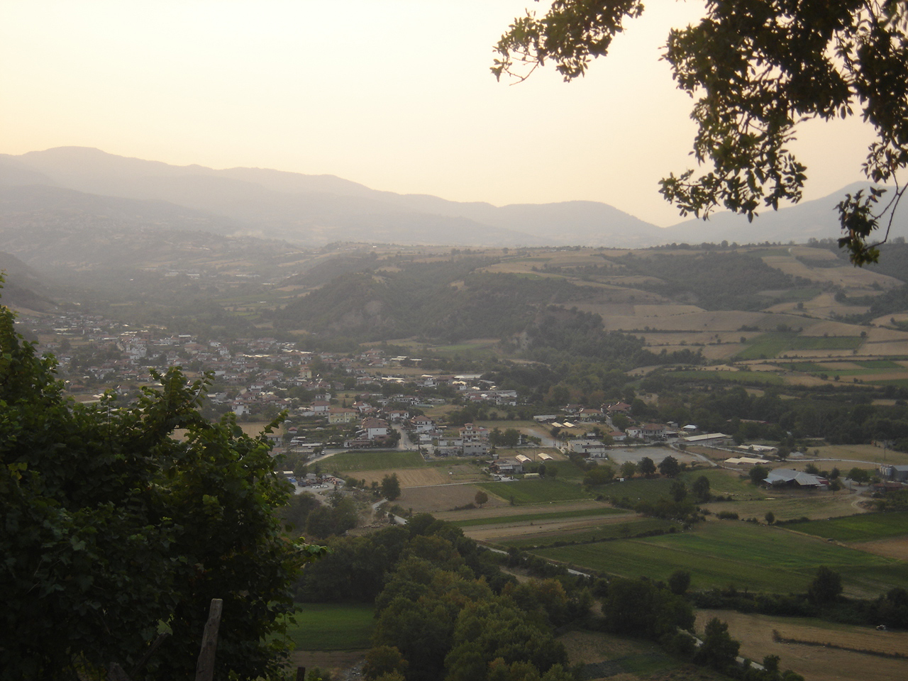 A view from Rahi.